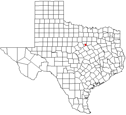 Rainbow, Texas location map; created with the GIMP. Made by User:Acntx.